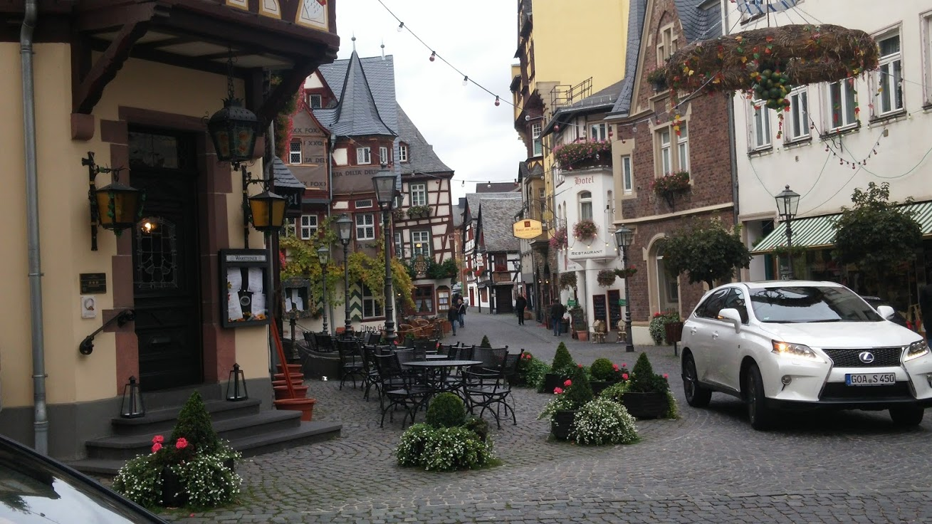 Main streat